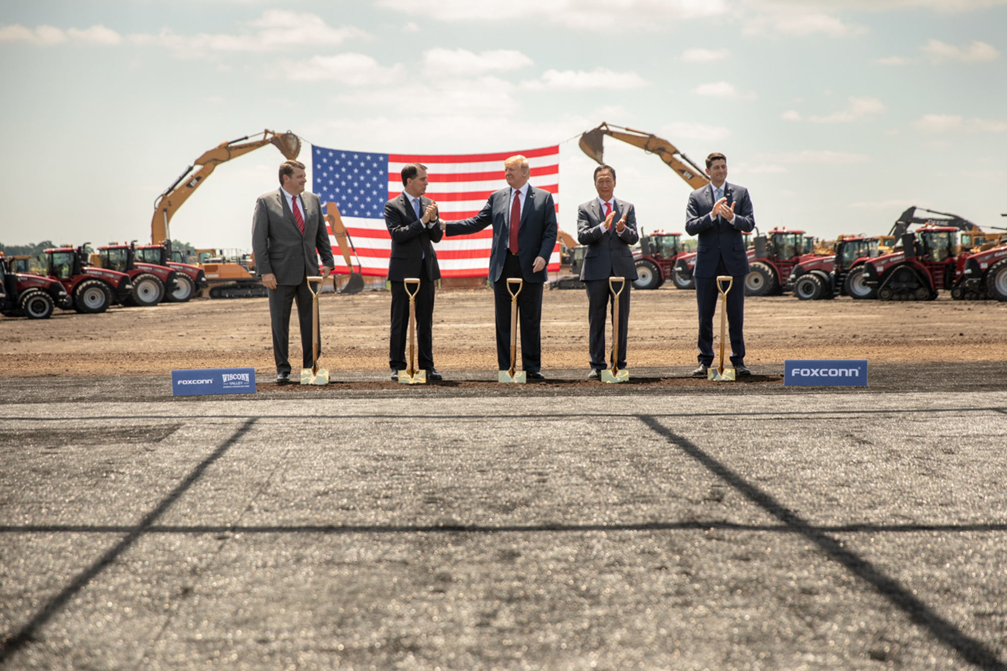 Speaker Paul Ryan, President Donald Trump, Wisconsin Governor Scott Walker, Foxconn Founder and CEO Terry Gou and Christopher Murdock at Foxconn's groundbreaking ceremony in Wisconsin